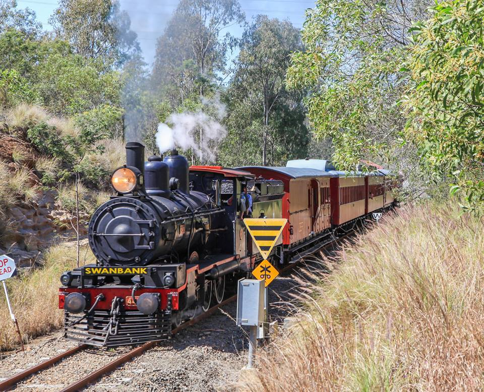 PB15 Leaving Swanbank